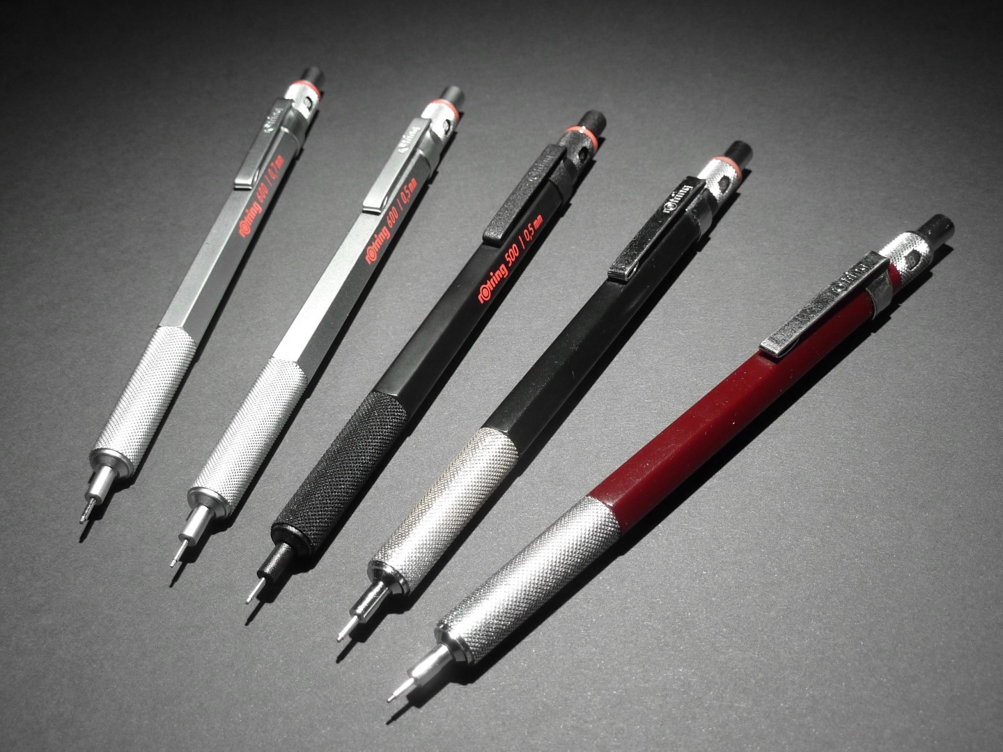 Rotring 500 and 600 pens